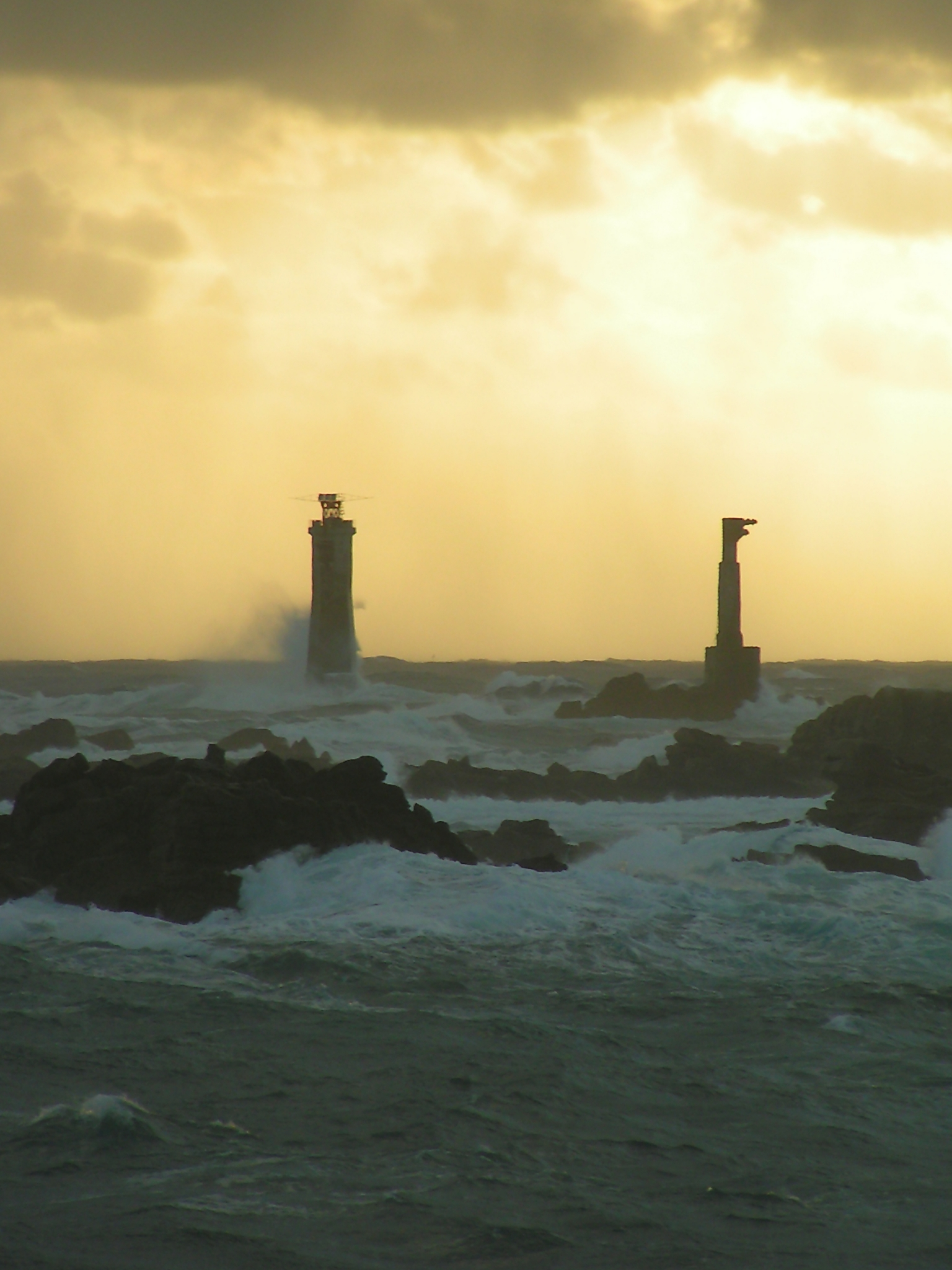 The Nividic lighthouse, at Ouessant island (Finistère, France), at the limit of waters between the English Channel and the Iroise Sea in the Atlantic Ocean, one of the places with the most important navigation traffic in the world, and one of the most dangerous.